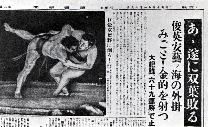 Futabayama defeated by Akinoumi. (from Yomiuri shimbun,1939/01/16)